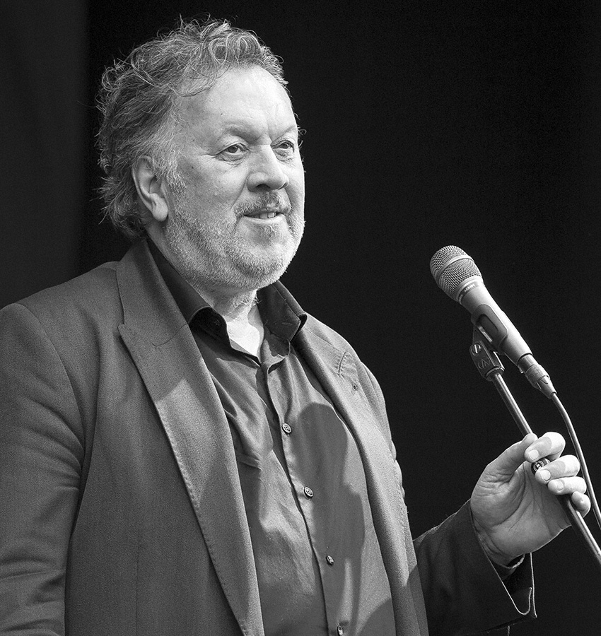 Bjørn Eidsvåg at the main stage during Stavernfestivalen in Stavern on 07. July 2016. Lineup:Bjørn Eidsvåg (vocal)Unidentified (bass)Kjetil Steensnæs (guitar)David Wallumrød (keyboard)Unidentified (drums)